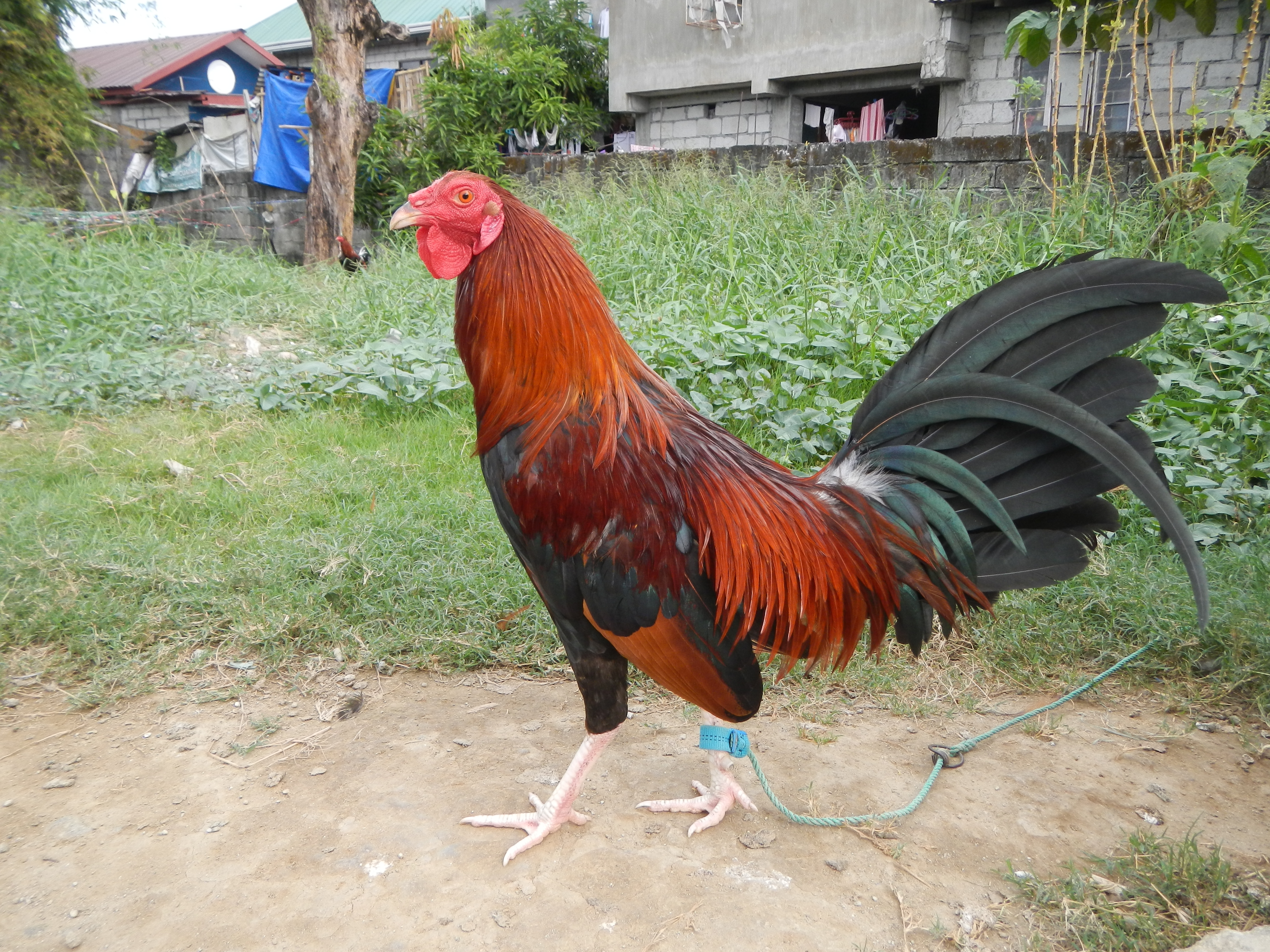 Chickens of the Philippines